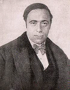 Fernand Allard l'Olivier